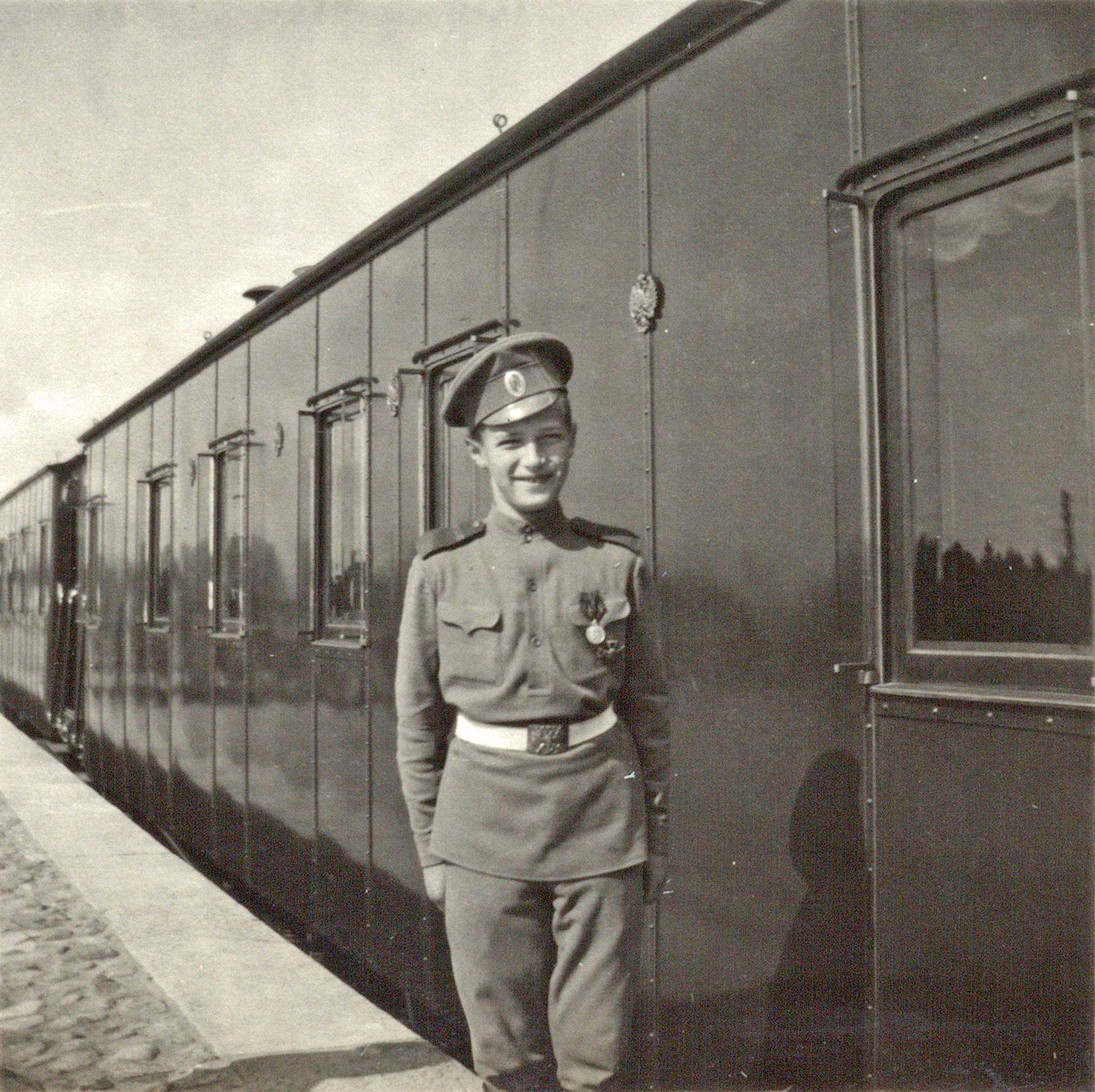 Alexei, son of Nicholas II in front of the Imperial train in Mogilev